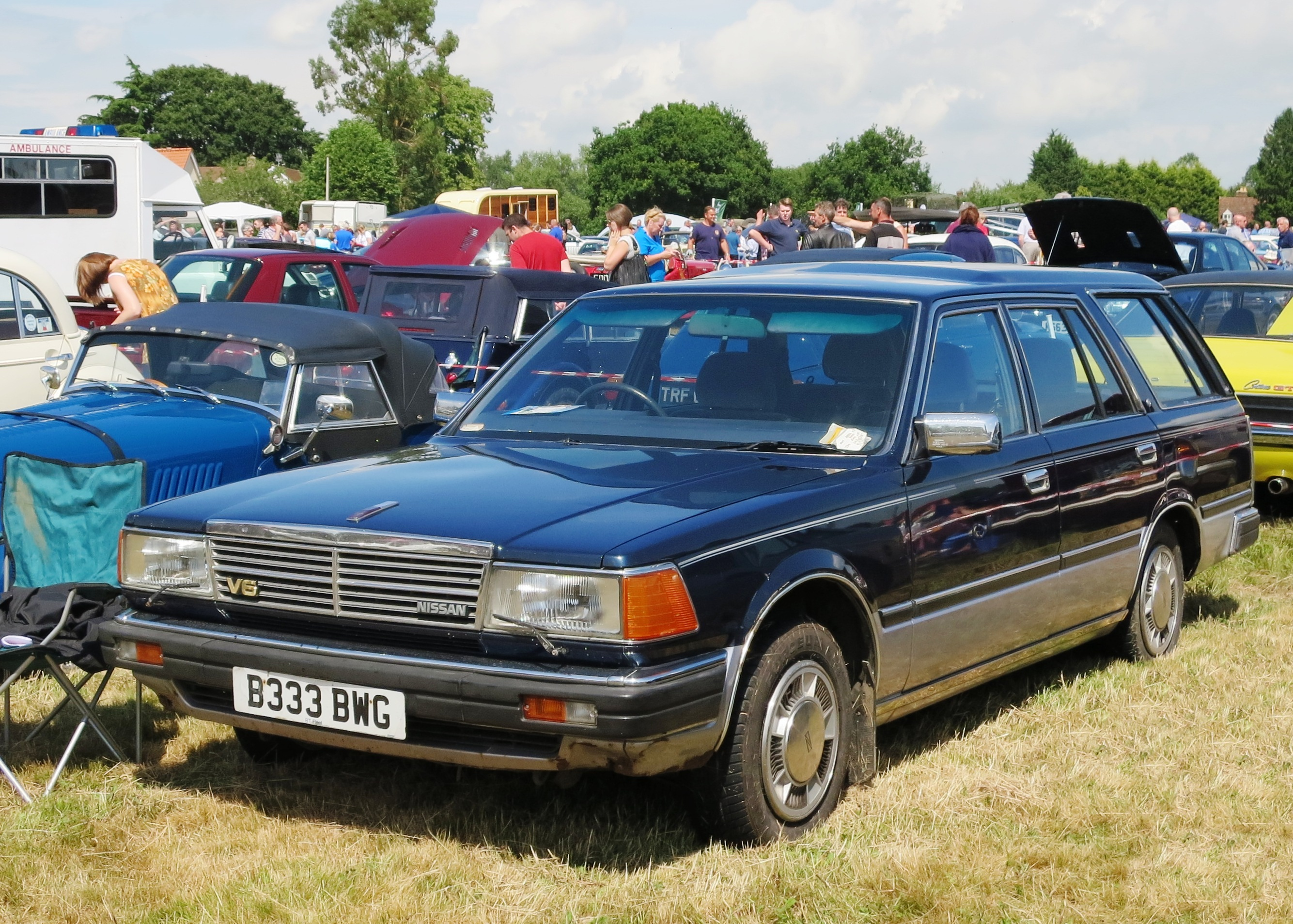 Nissan 300C estate (1984)